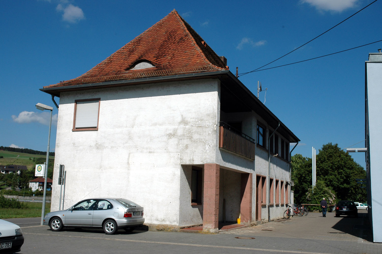 station building of former train station of Königheim.